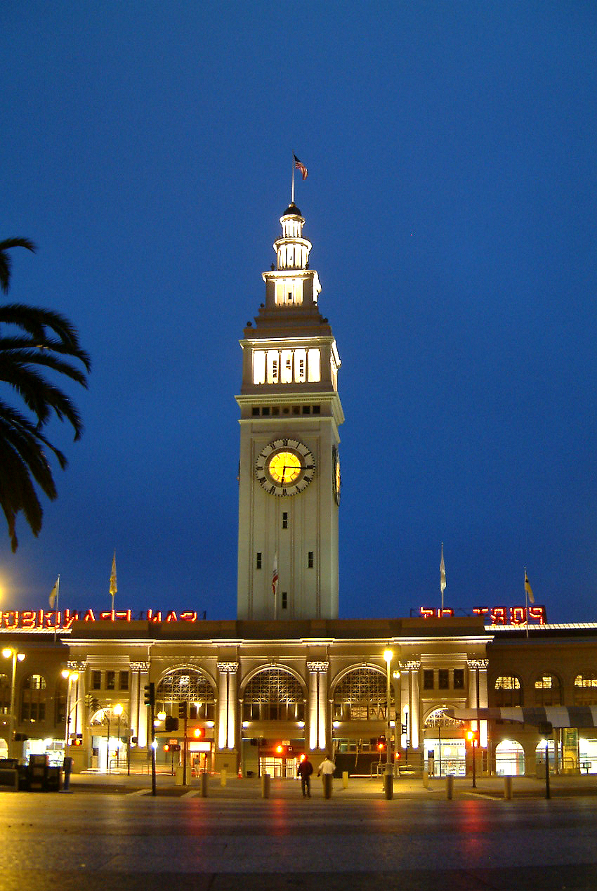 San Francisco (California, USA) Ferry building, at night.